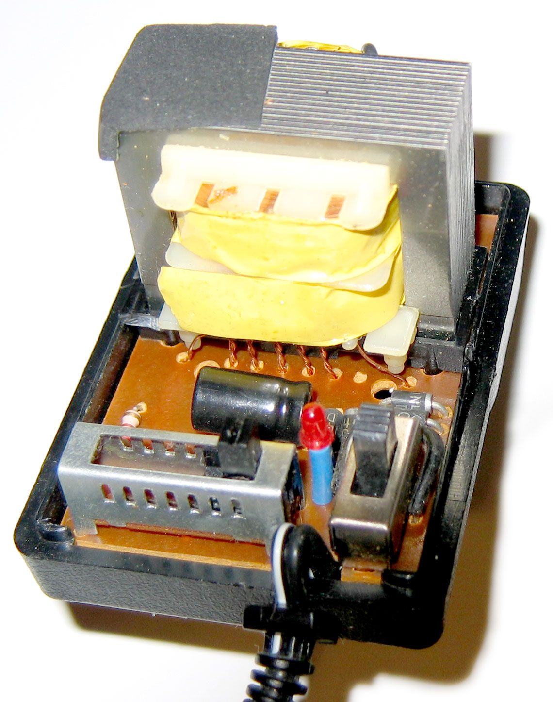 This is the inside of a "wall wart" style variable power supply. The large component with yellow parts is a transformer with several 'tappings'. By connecting to different tappings, different voltages can be produced. Full wave rectification is provided by four silicon diodes, the black-and-grey components above the rightmost switch, arranged as a rectifier. Smoothing is provided by the large black capacitor. The resistor seen on the left regulates voltage to the status LED.